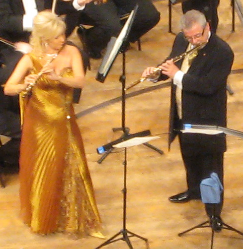 British flute player Sir James Galway and his wife Jeanne performing in the New Year's Eve concert at the Culture and Convention Centre Lucerne (KKL Luzern) on December 31, 2007.